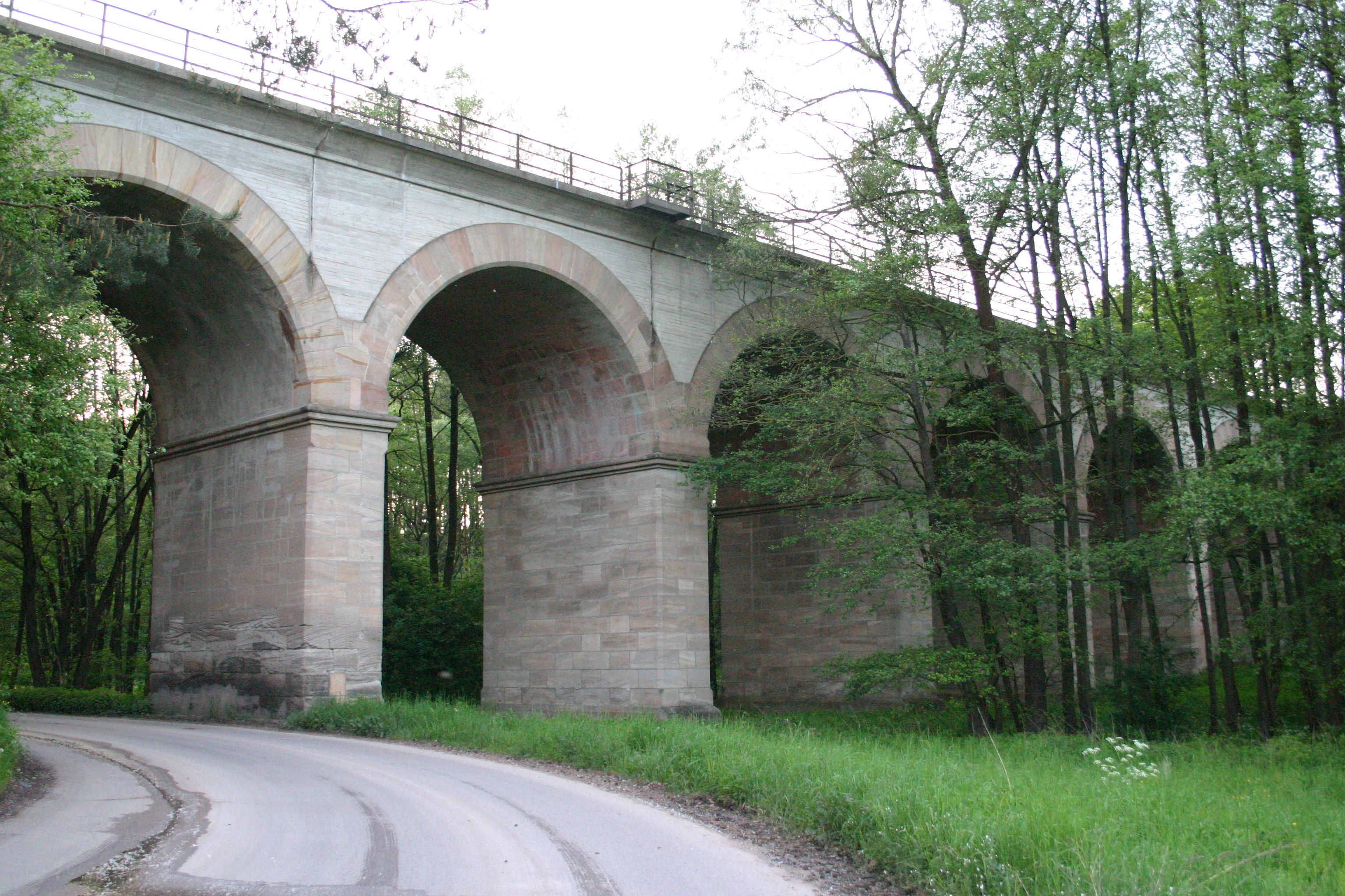 Brombach Railway viaduct near Pleinfeld, Bavaria, Germany, heritage-listed